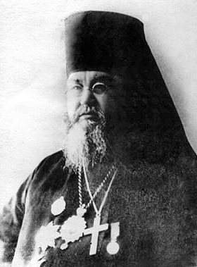 Alexius, Bishop of Vladimir and Suzdal